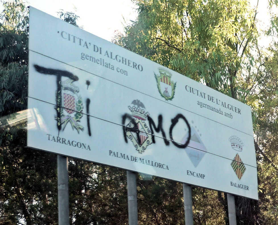 Sign at Alghero (Sardinia) showing town twinning with Tarragona, Palma de Mallorca, Encamp, Balaguer. On the sign, a love graffiti writing states: "TI AMO" ("I Love you")